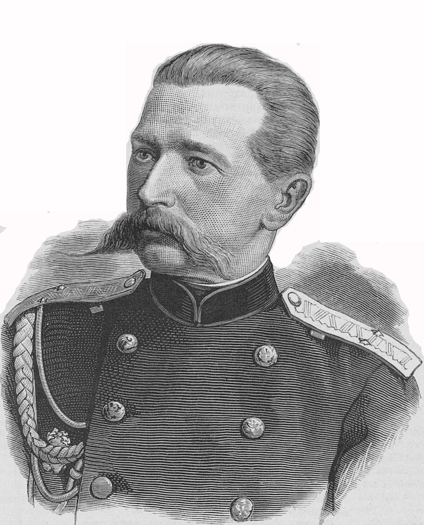 Raukh, Otton Yegorvich